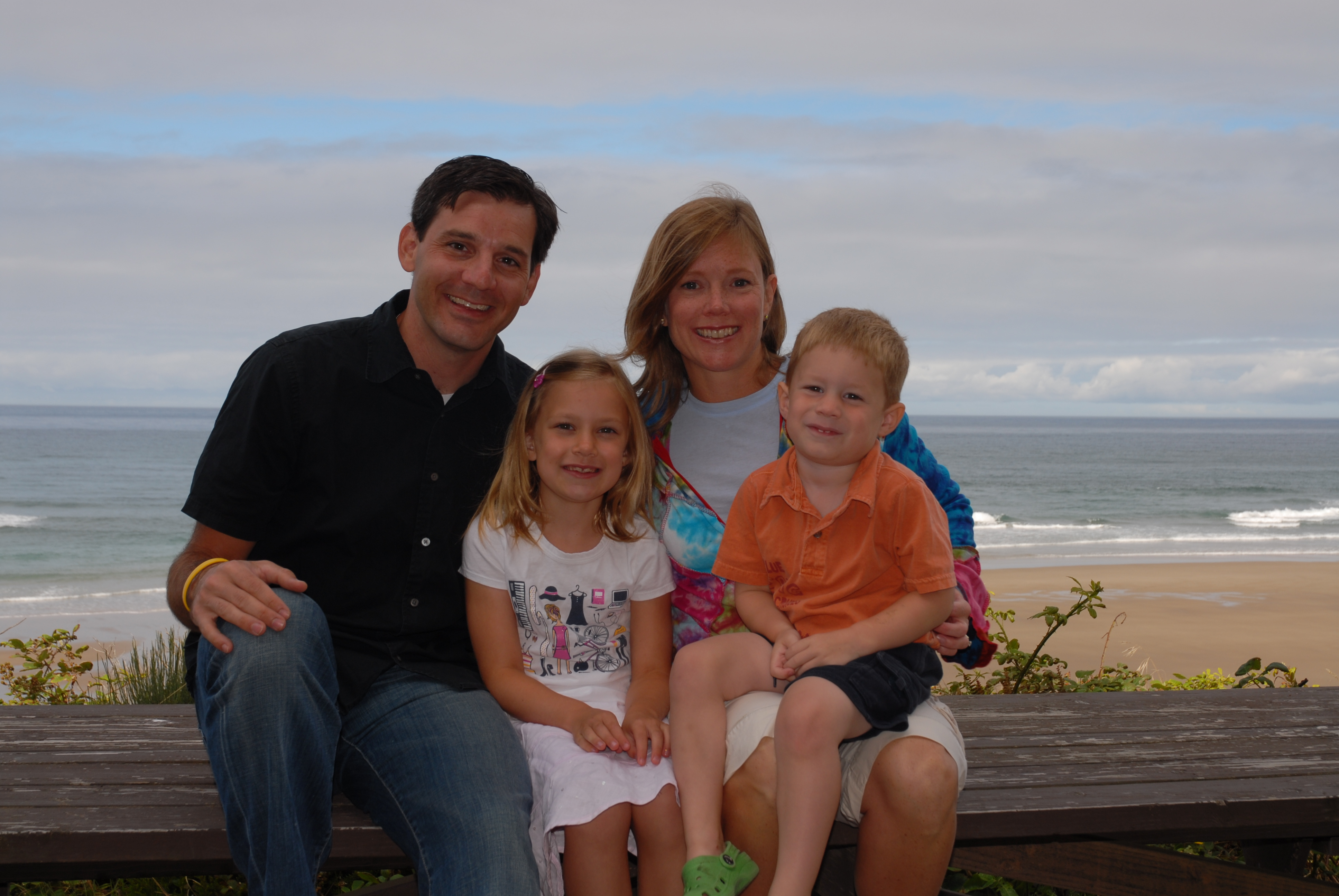 family trip to Oregon